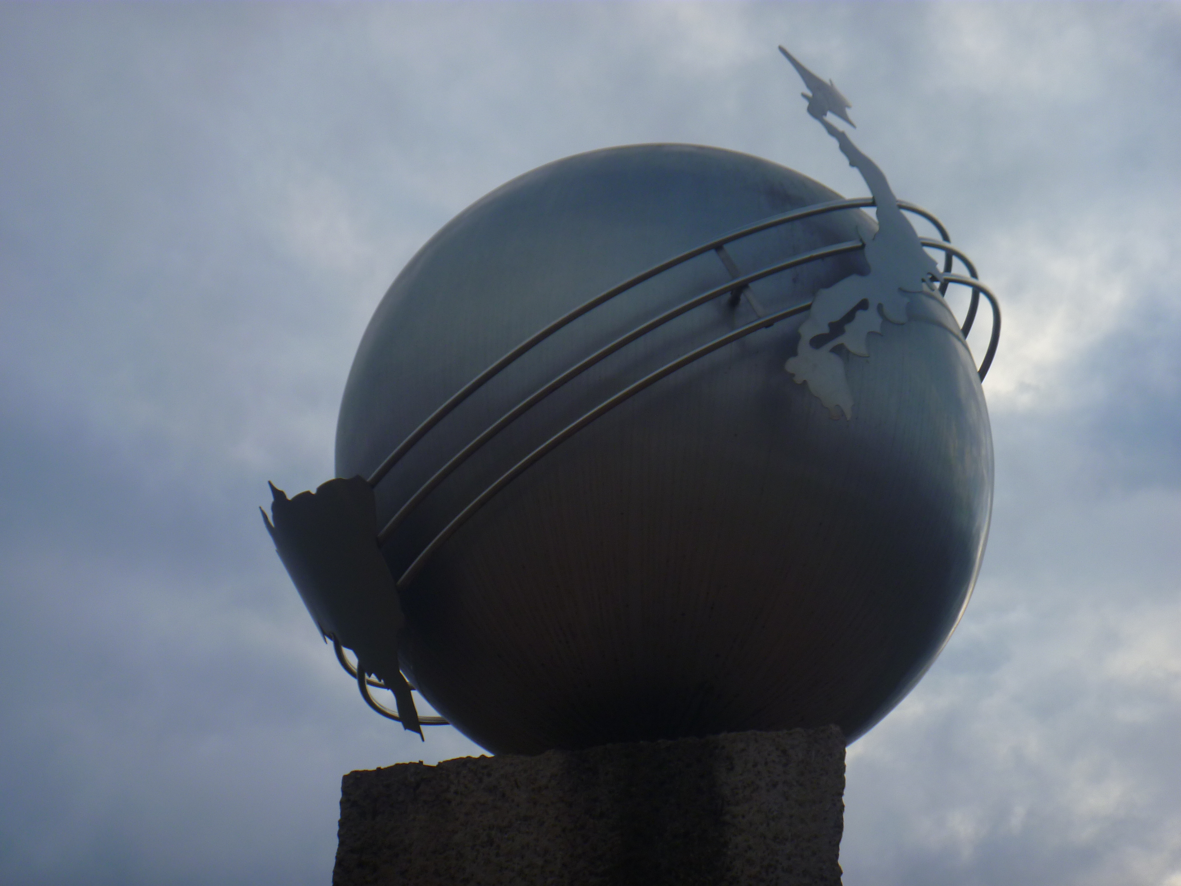 Brazil Japan friendship sign at Japanese Park in Maringa, Brazil